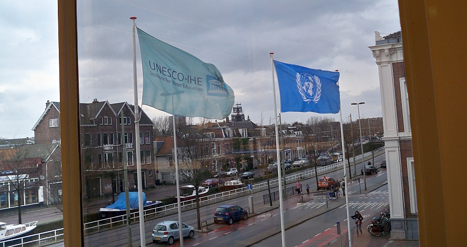 UNESCO-IHE Flag